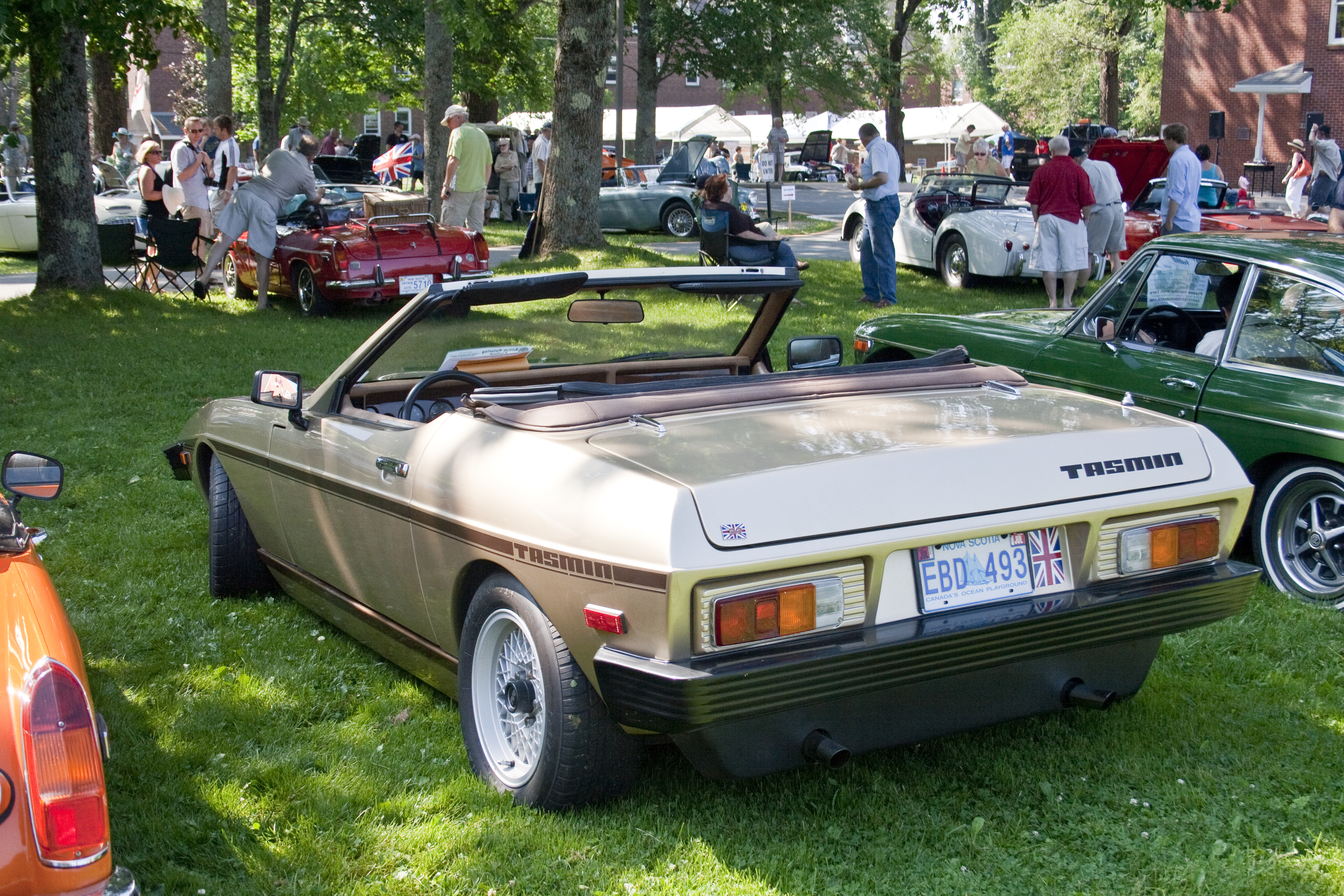 TVR Tasmin